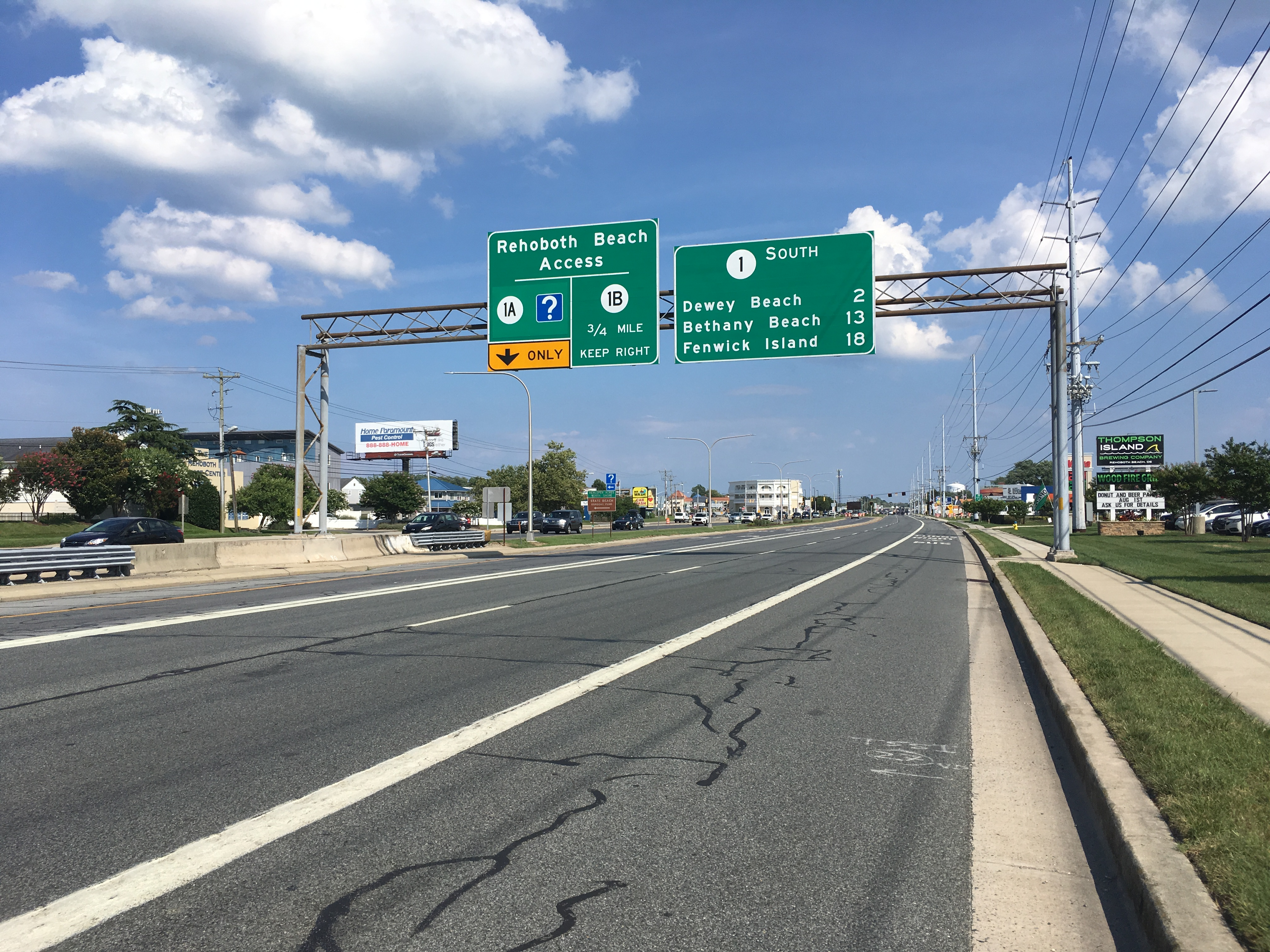 Southbound Delaware Route 1 (Coastal Highway) approaching the intersection with the northern terminus of Delaware Route 1A (Rehoboth Avenue) in Rehoboth Beach, Delaware